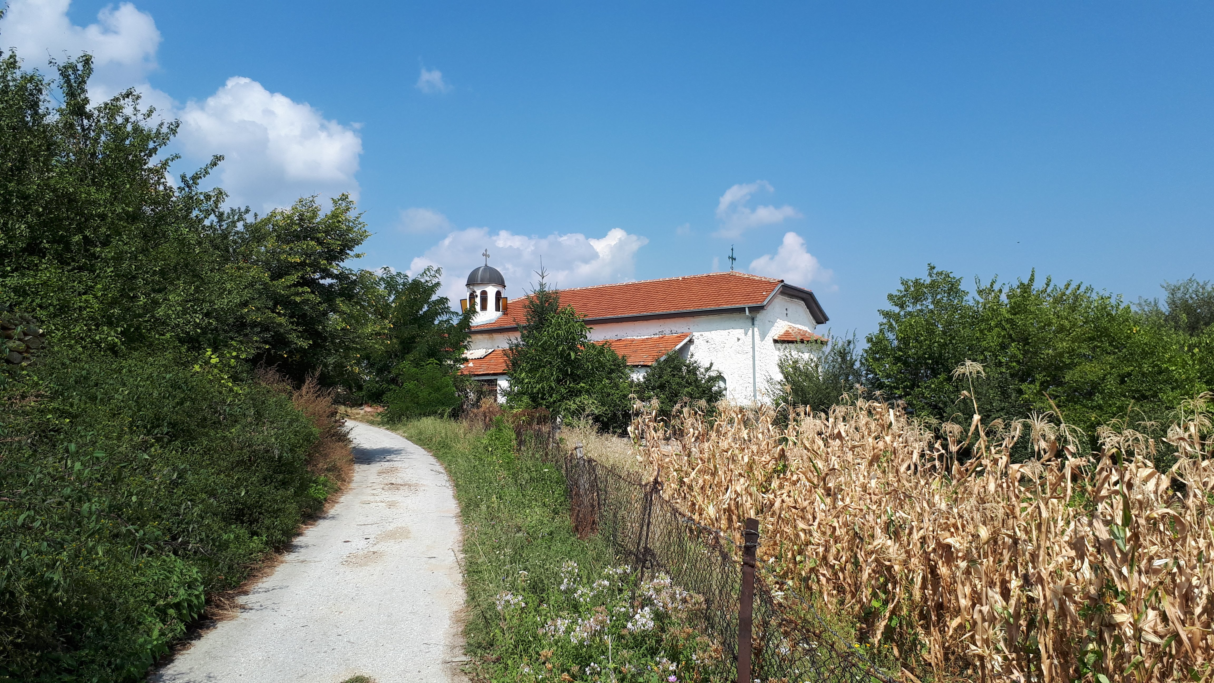 View of the Saints Peter and Paul Church in the village Krstoar